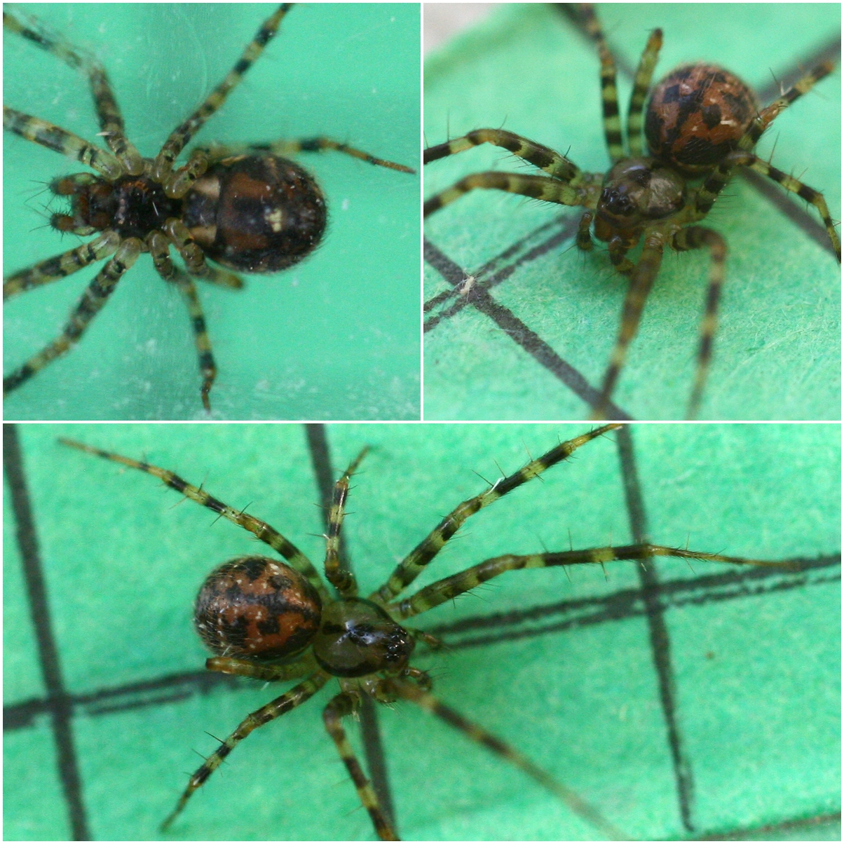 Labulla thoracica (Linyphidae). Bricket Wood Common, Hertfordshire, 18.04.2010.